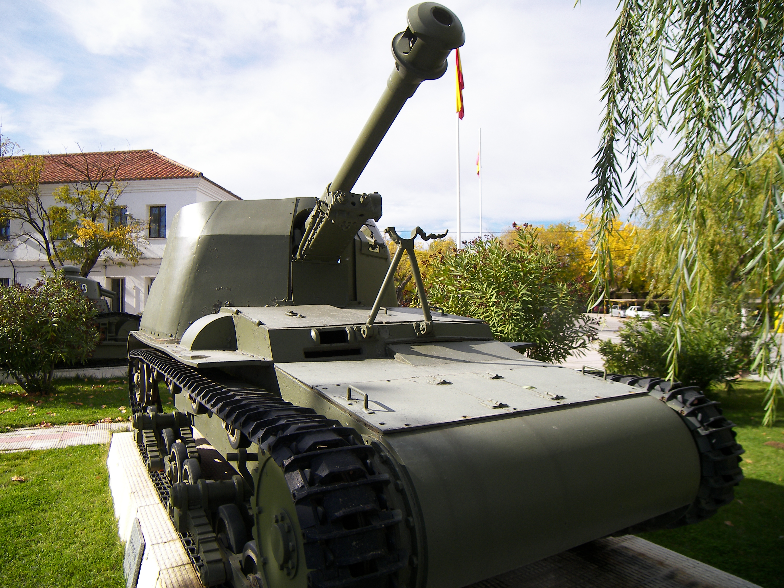 Photograph of the Verdeja 75mm self-propelled howitzer prototype, at El Golos.